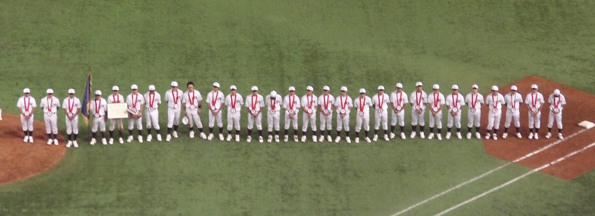 JR East Baseball Team at the Intercity Baseball Tournament 2007